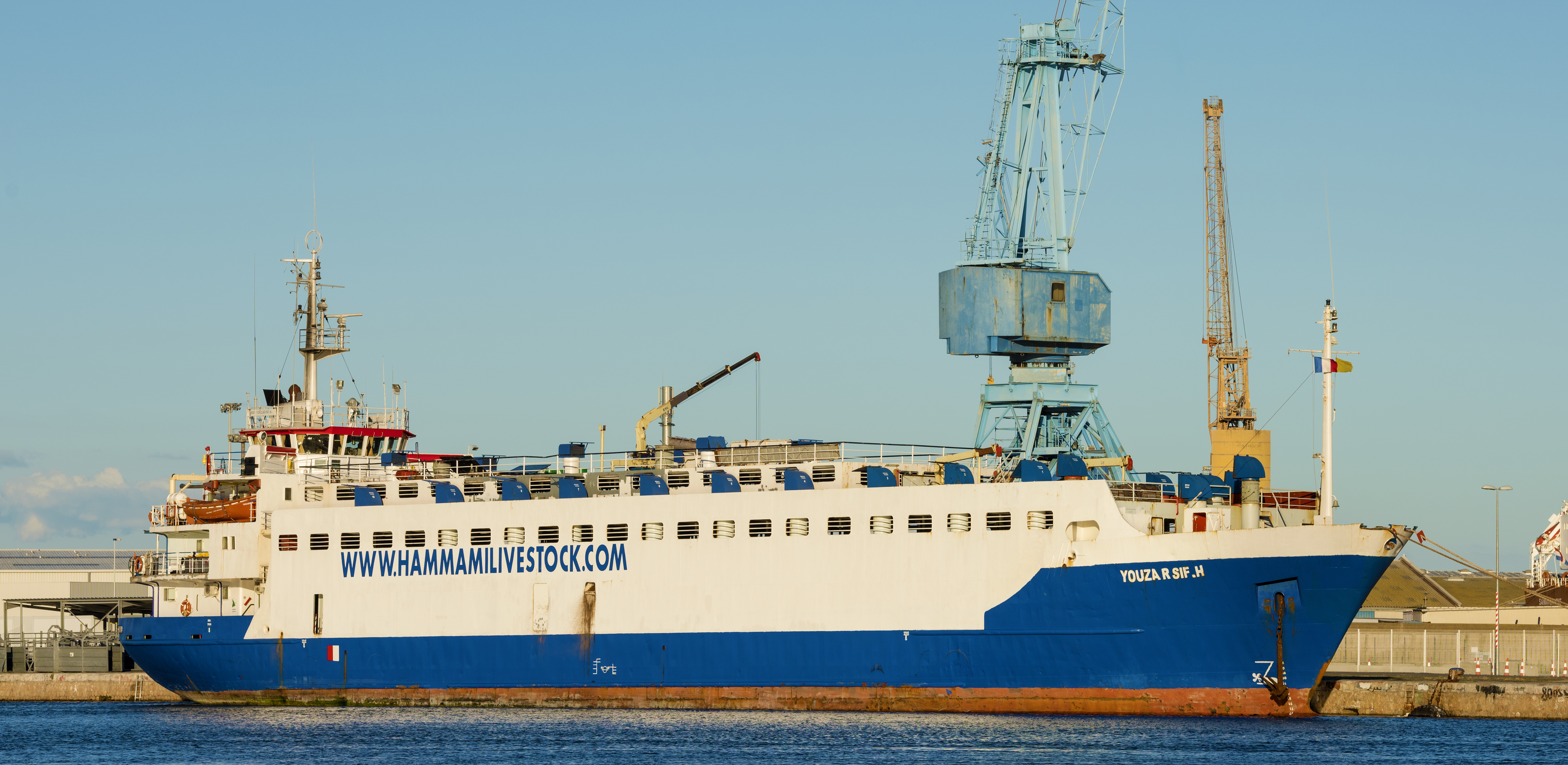 YOUZARSIF H (ship, 1977). Sète, Hérault, France.